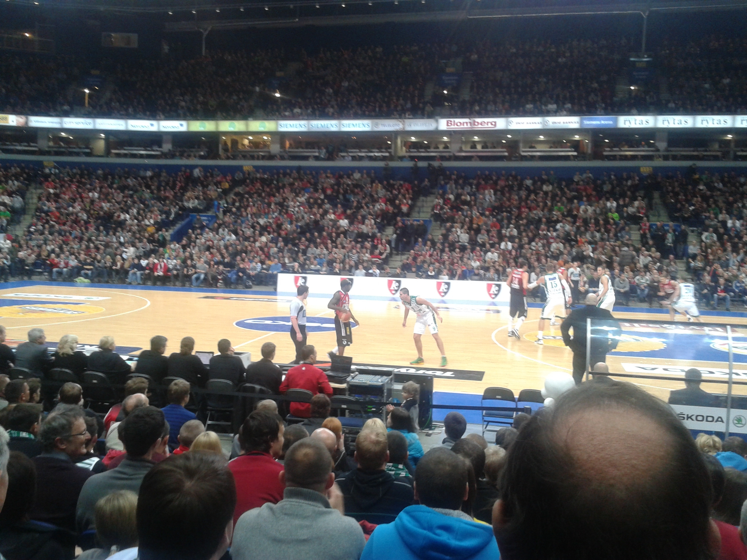 Lietuvos Rytas playing against Žalgiris during the LKL game in Siemens Arena.